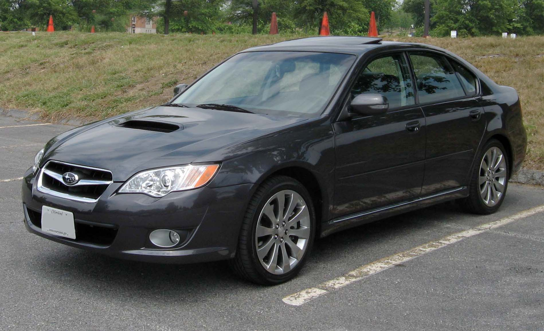 2008–2009 Subaru Legacy 2.5GT spec.B photographed in USA.